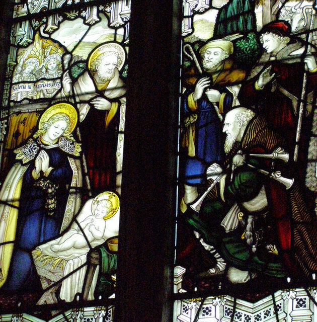 Stained glass window in St Giles' parish church, Horsted Keynes, West Sussex, showing the visit of the three shepherds to the nativity of Jesus Christ. The shepherd on the right wears a kilt and carries a set of bagpipes.